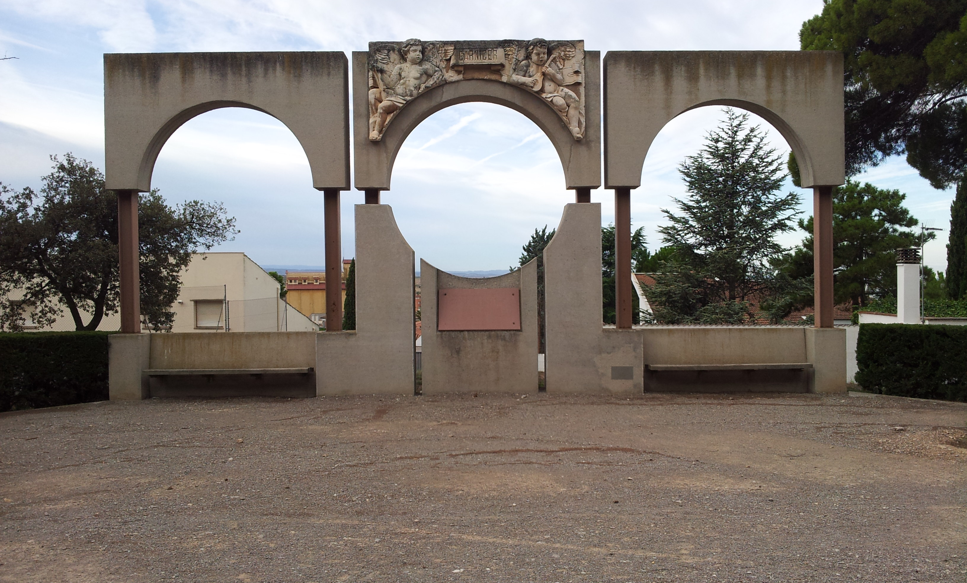 Monument a Ramon Carnicer, Parc de Sant Eloi, Tàrrega. Més detalls a